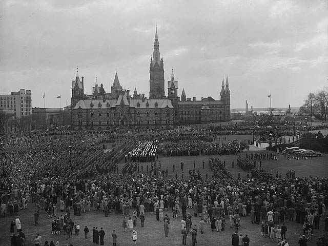 V.E. Day official parade en route to Parliament Hill. Ottawa, Canada.